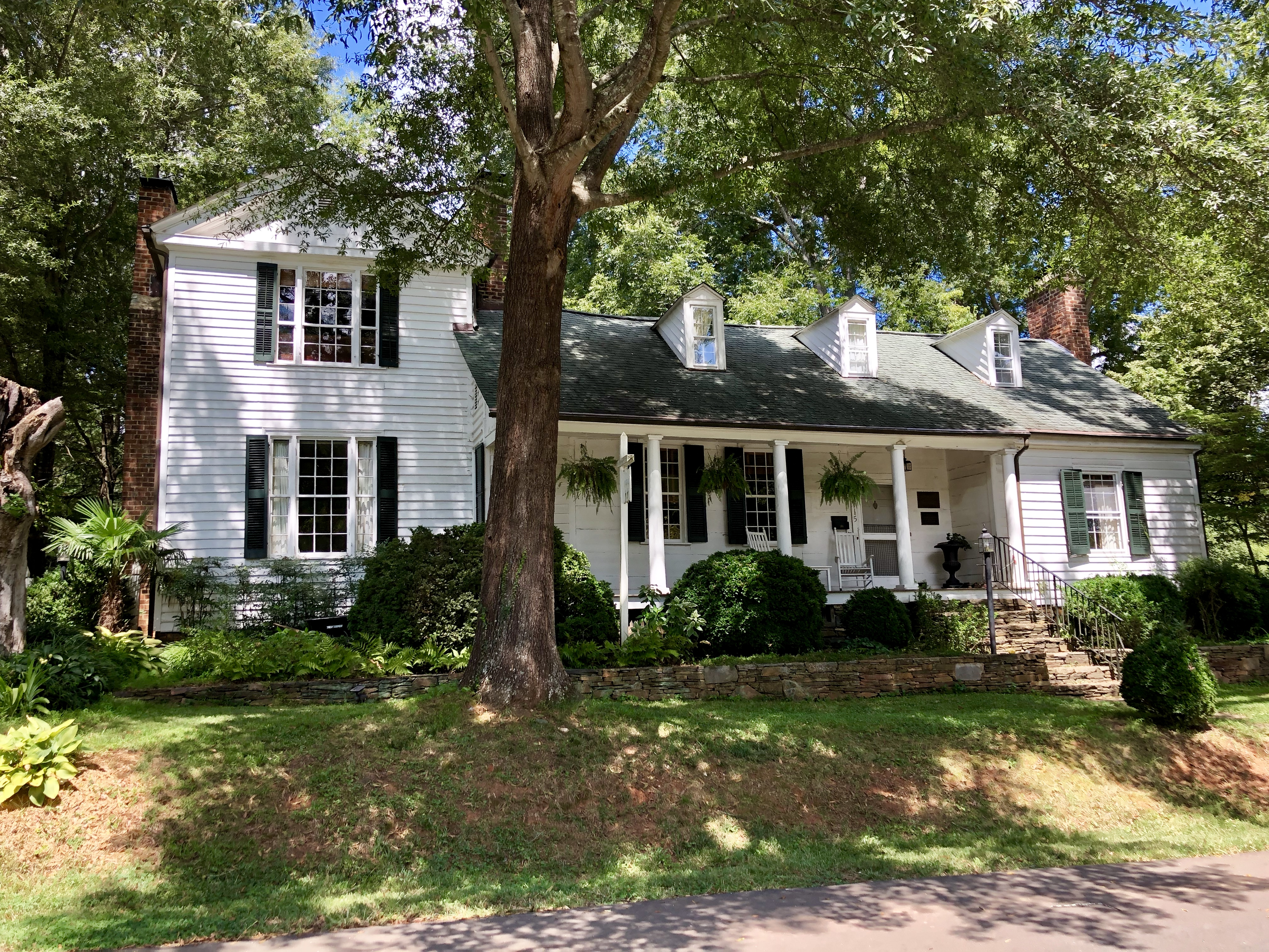 This is Heartsease, a house on Queen Street in Hillsborough, North Carolina. Constructed circa 1820, the house was listed on the National Register of Historic Places in 1973.